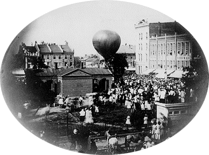 John Wise starting the first airmail delivery in the US